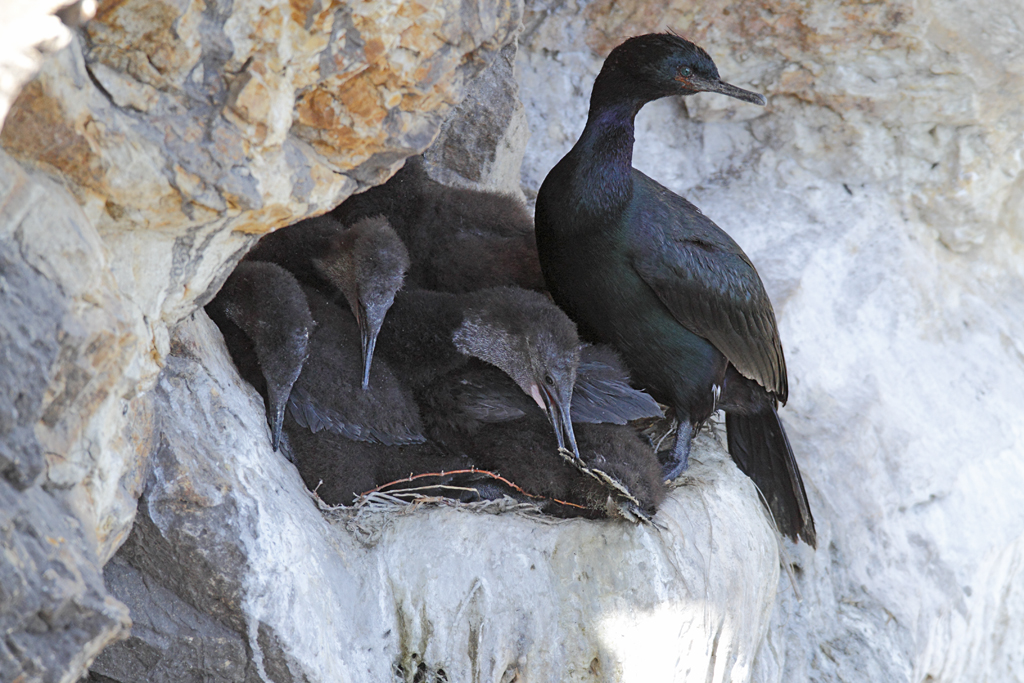 Pelagic Cormorants on a nest in San Luis Obispo, California, USA. There are chicks that are about four weeks old and a parent.